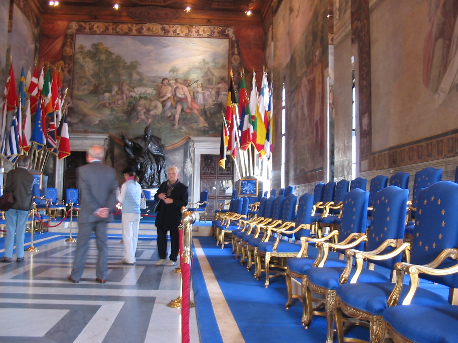 Hall in the Musei Capitolini (Capitoline Museums) in Rome, where the European Constitution was signed on 29 October 2004 and where the European Economic Community had formally been founded in 1957 with the Treaty of Rome (picture of hall with visitors)